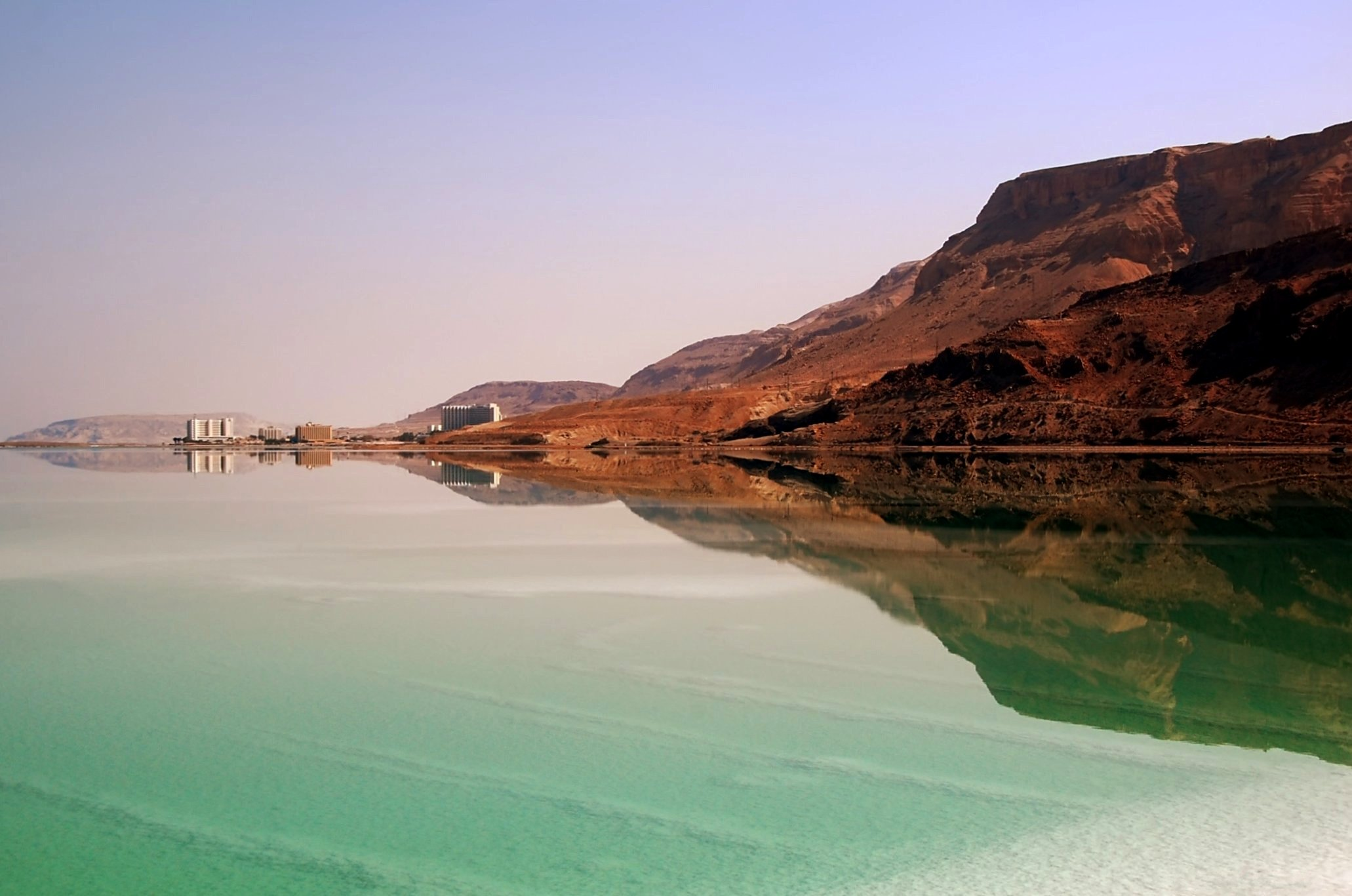 Orilla del Mar Muerto (Israel). / Shore of the Dead Sea (Israel).